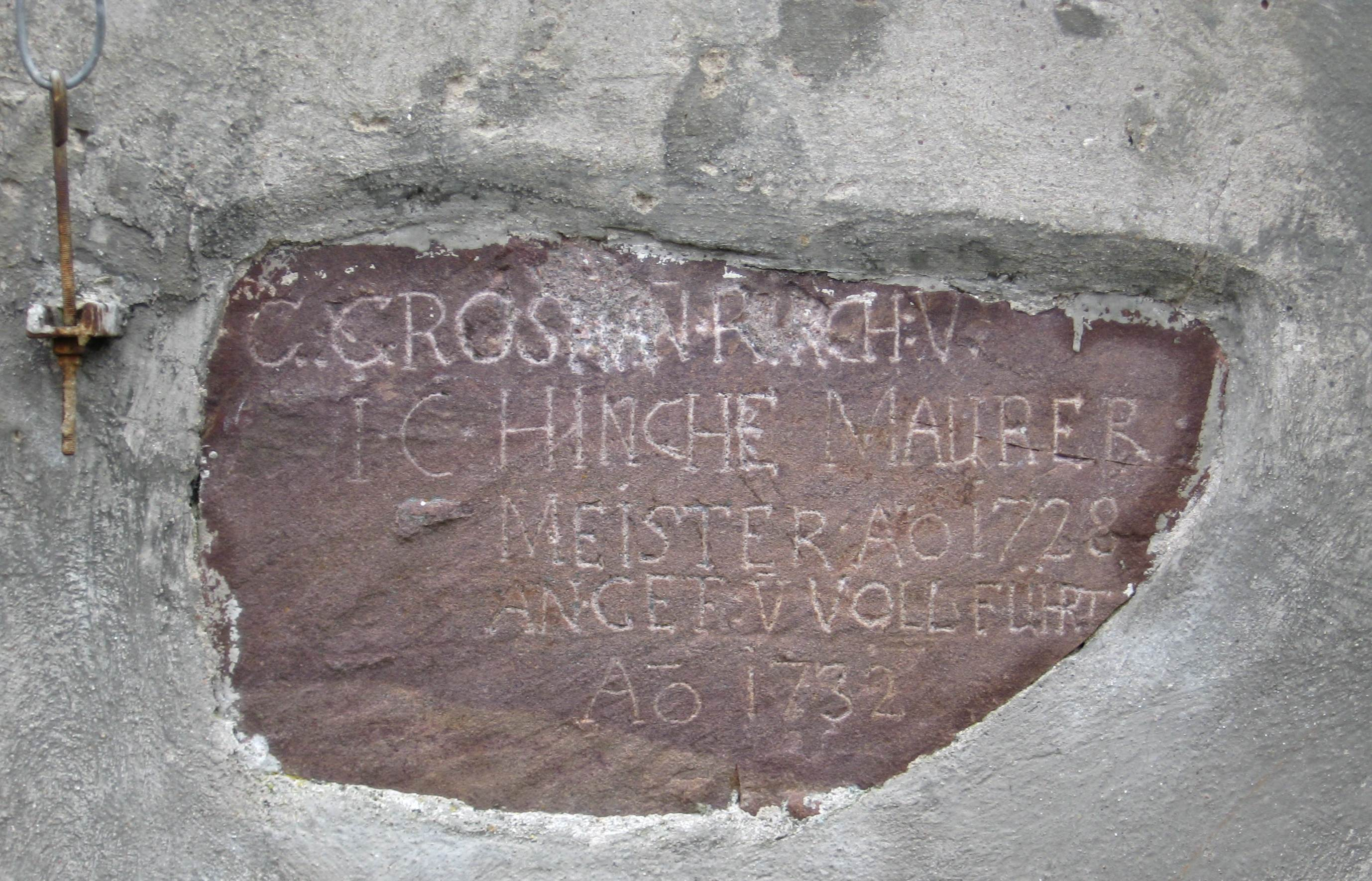 Garbno - Google Maps - Google Earth